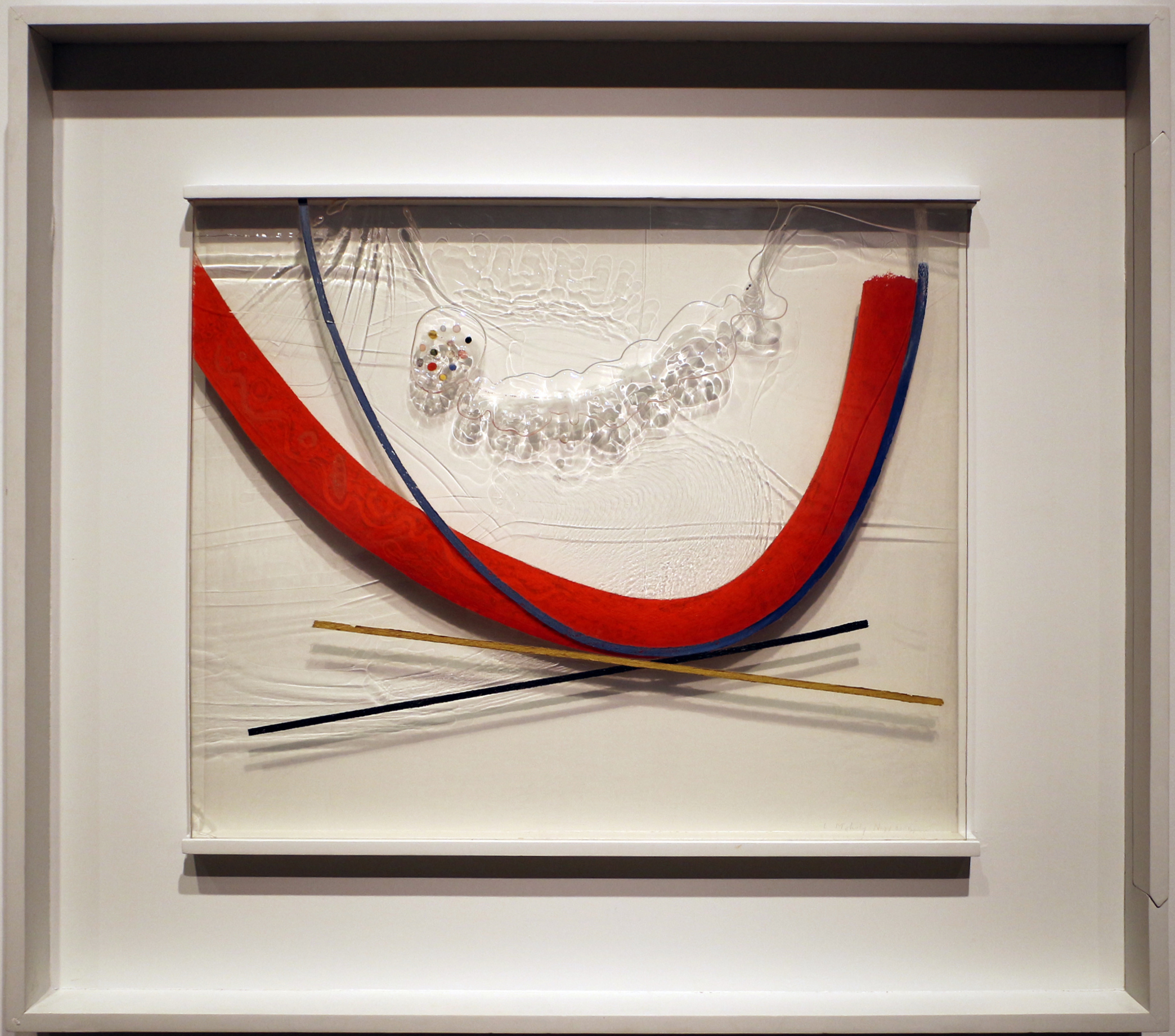 Moholy-Nagy: Future Present (2016 exhibition)